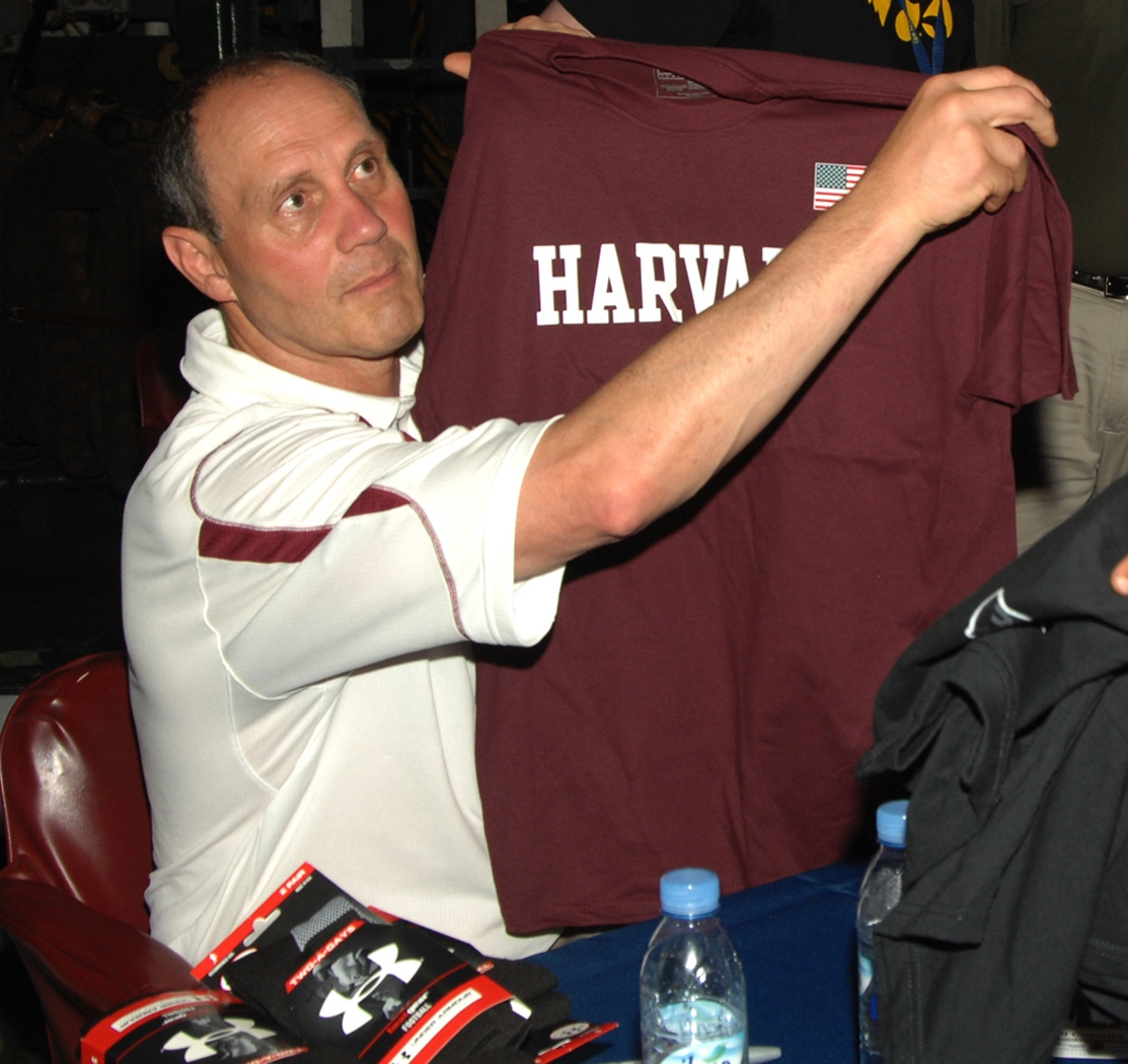 NORTHERN ARABIAN SEA (May 26, 2010) Harvard head football coach Tim Murphy holds up a sweatshirt while meeting with U.S. Sailors aboard the aircraft carrier USS Dwight D. Eisenhower (CVN 69) as part of a Morale Entertainment and USO-sponsored 2010 Coaches Tour. Head football coaches from the University of Illinois, the University of Oregon and the U.S. Military Academy joined Murphy on the tour to boost the morale of service members overseas. The Eisenhower Carrier Strike Group is deployed as part of an on-going rotation of forward-deployed forces to support maritime security operations in the U.S. 5th Fleet area of responsibility. (U.S. Navy photo by Mass Communication Specialist 3rd Class Christopher A. Baker/Released)